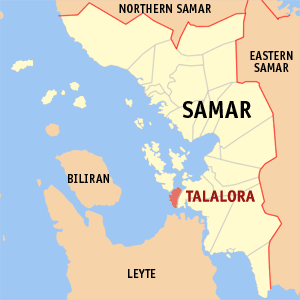 Map of Samar showing the location of Talalora